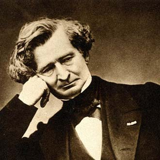 Photo of Hector Berlioz (1803 – 1869)